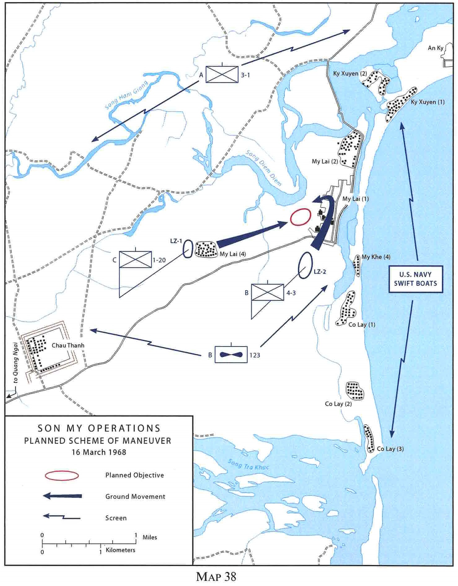 Son My operations 16 April 1968